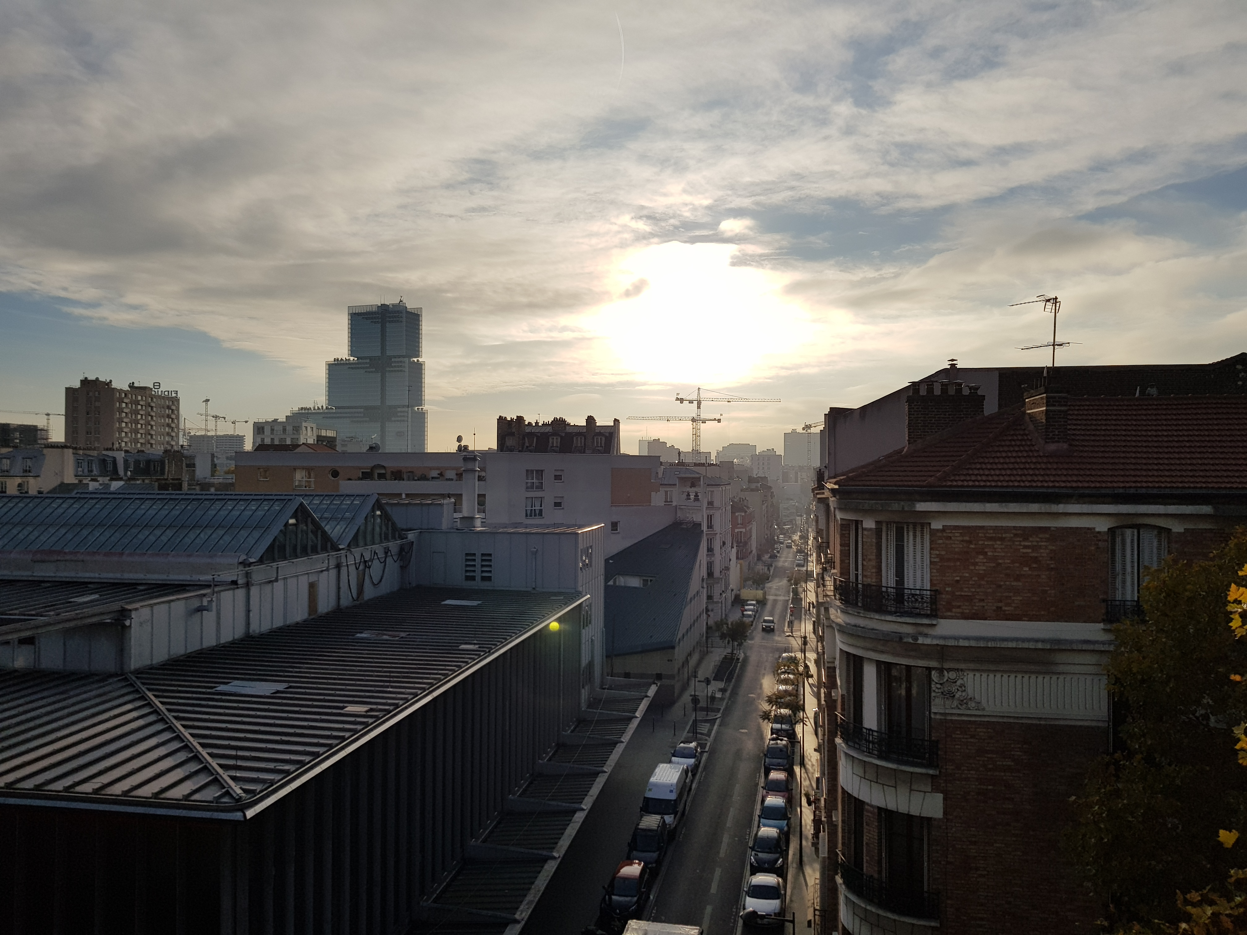 Rue Klock (view to south west), Clichy, France. Tribunal de Paris in the distance.